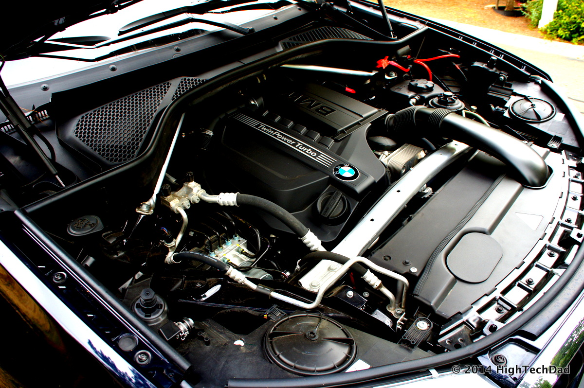 Photos from a 7-day test drive of the 2014 BMW X5 xDrive 35i. For more reviews, please visit or .